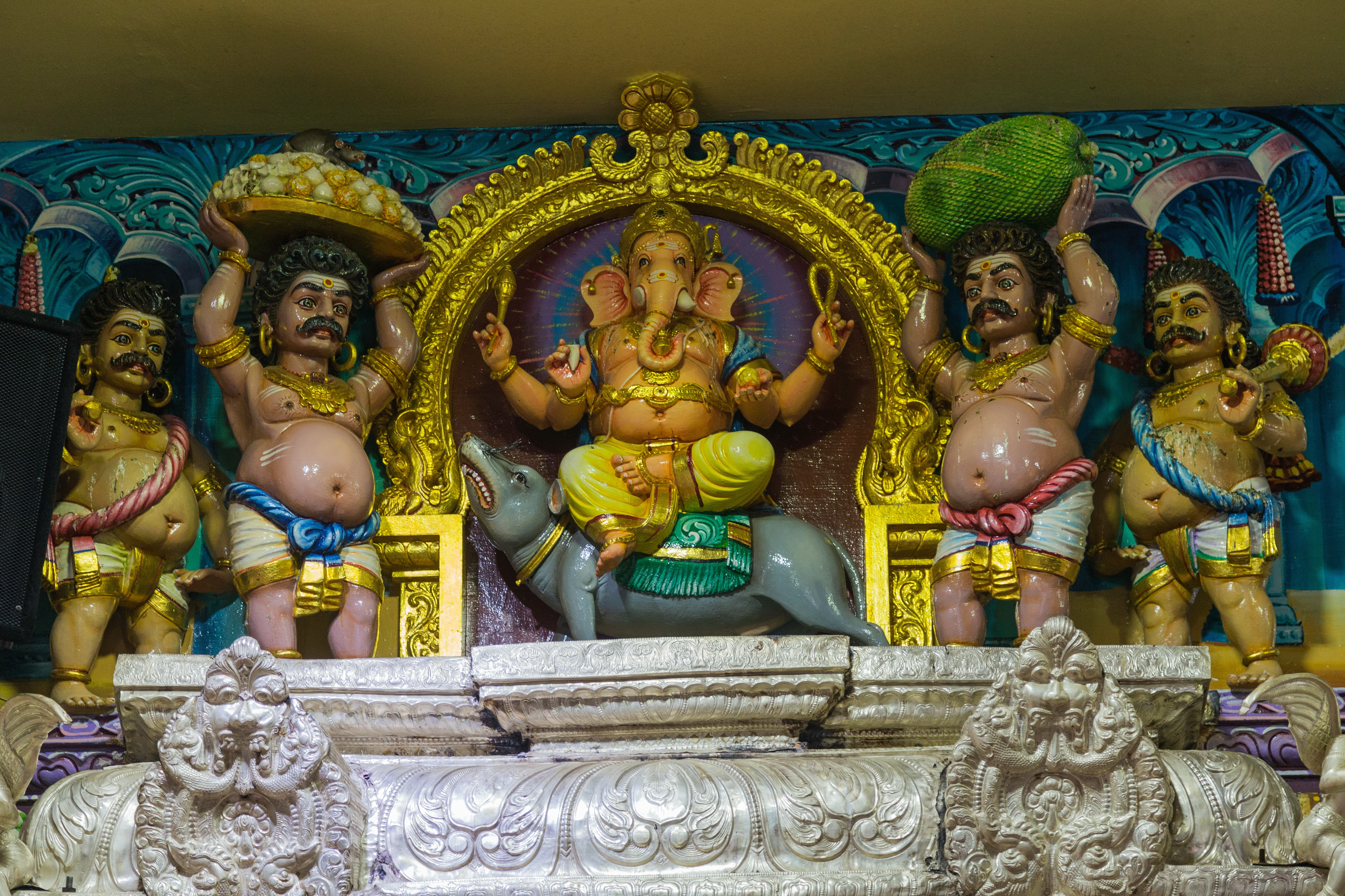 Sri Veeramakaliamman Temple. Little India, Central Region, Singapore.